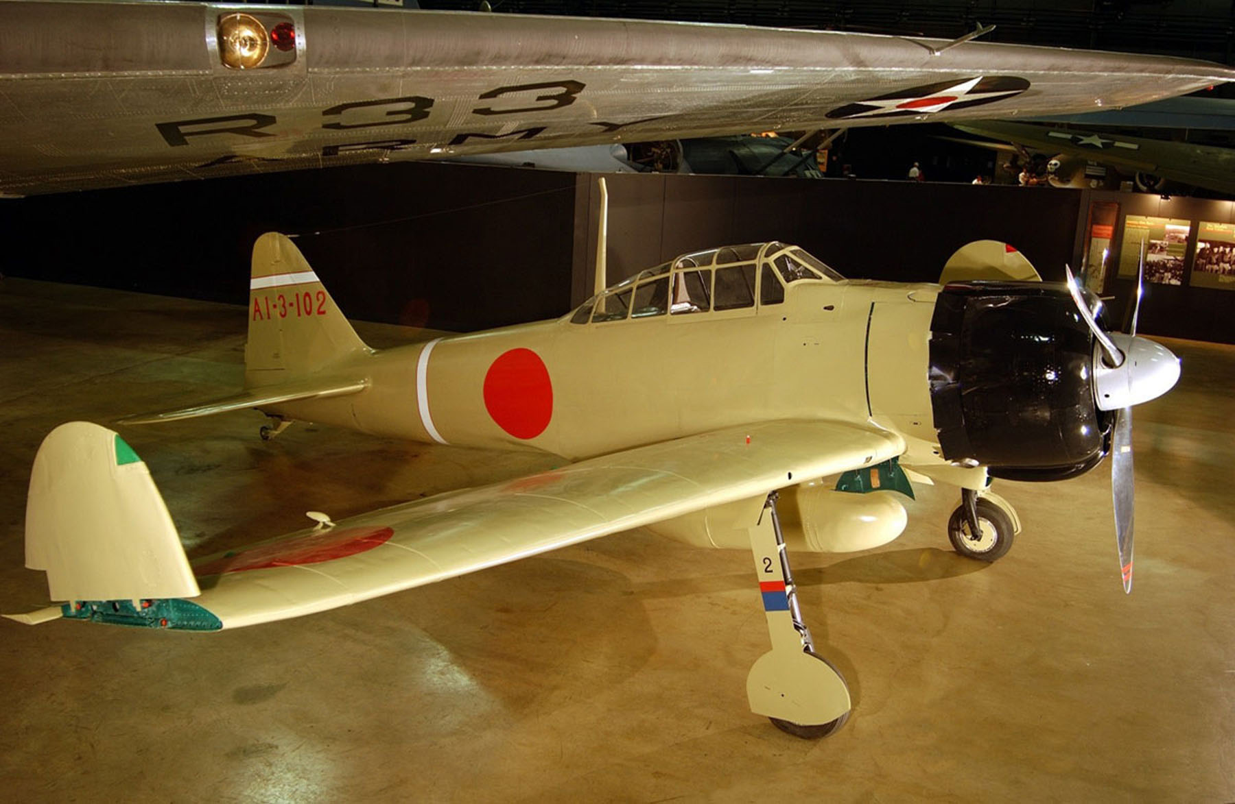 A Japanese Mitsubishi A6M2 Zero in the Air Power Gallery at the National Museum of the United States Air Force at Dayton, Ohio (USA).